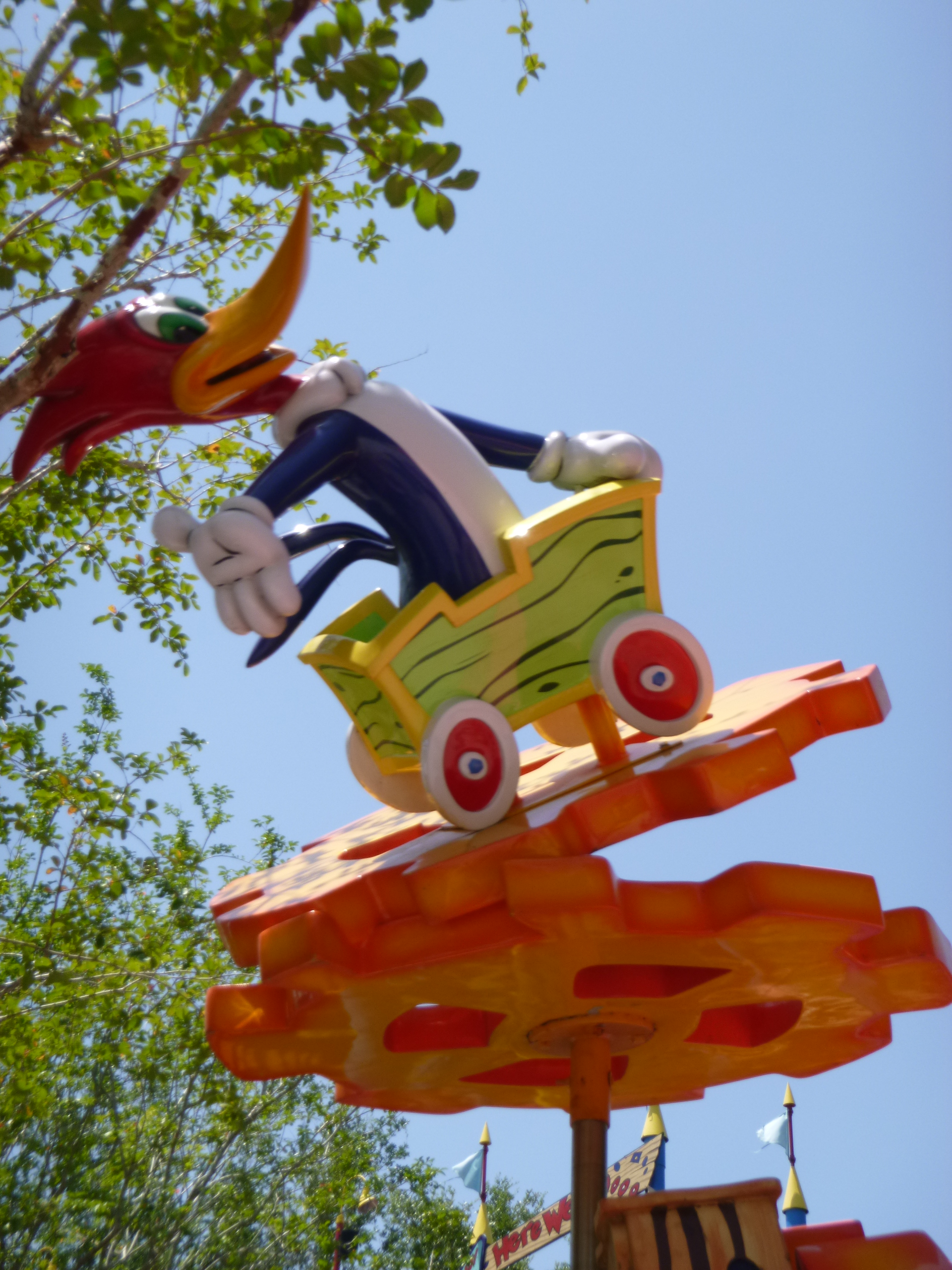 Woody Woodpecker in front of the Nuthouse Coaster